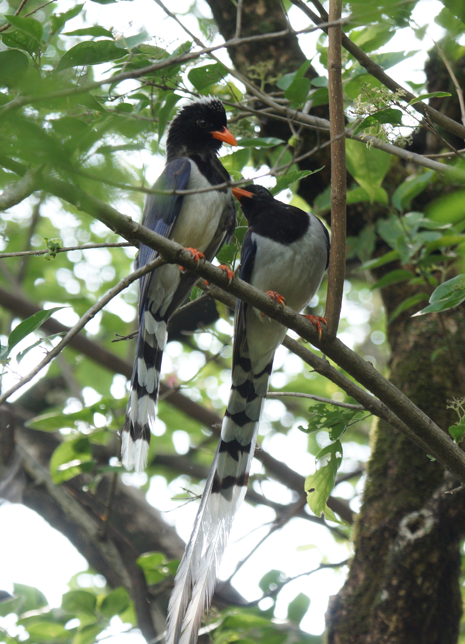 Friendly Magpies